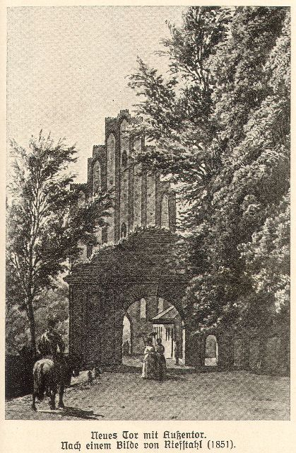 The Neues Tor (lit. New Gate, with ruinous pre-gate), one of the four city gates in the German town Neubrandenburg, Mecklenburg.